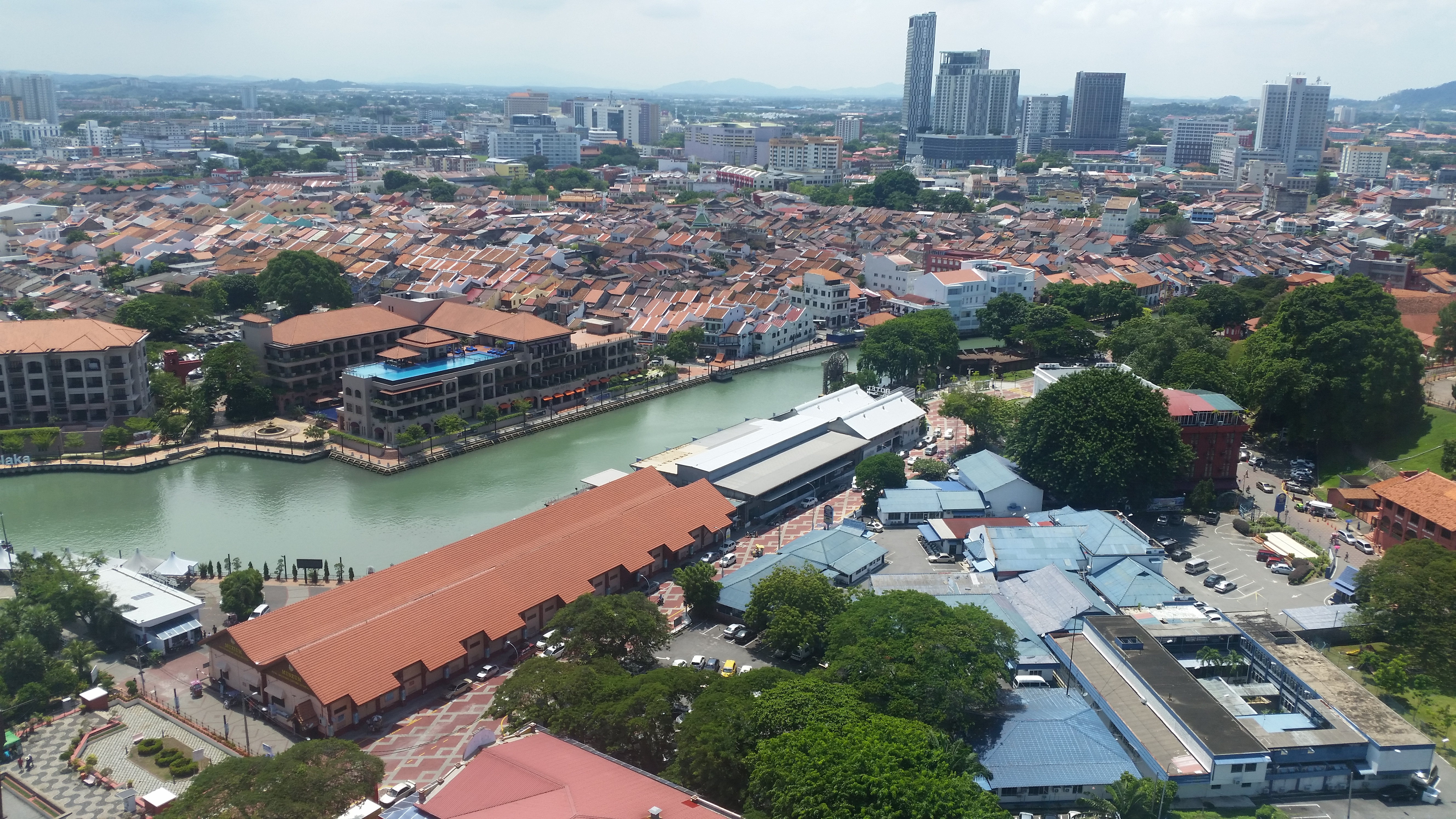 Melaka View